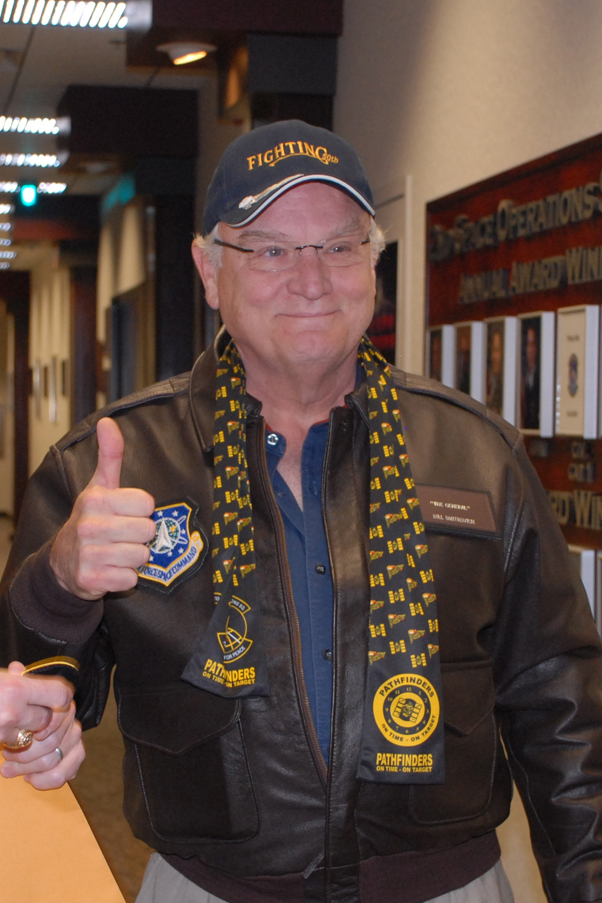 SCHRIEVER AIR FORCE BASE, Colo. - Bill Smitrovich, a Hollywood actor, is all smiles and gives a thumbs up to the 2nd Space Operations Squadron after visiting with 2nd SOPS Airmen May 20. Mr. Smitrovich was in town to visit with servicemembers and attend the Guardian Challenge. (U.S. Air Force photo/Staff Sgt. Daniel Martinez)